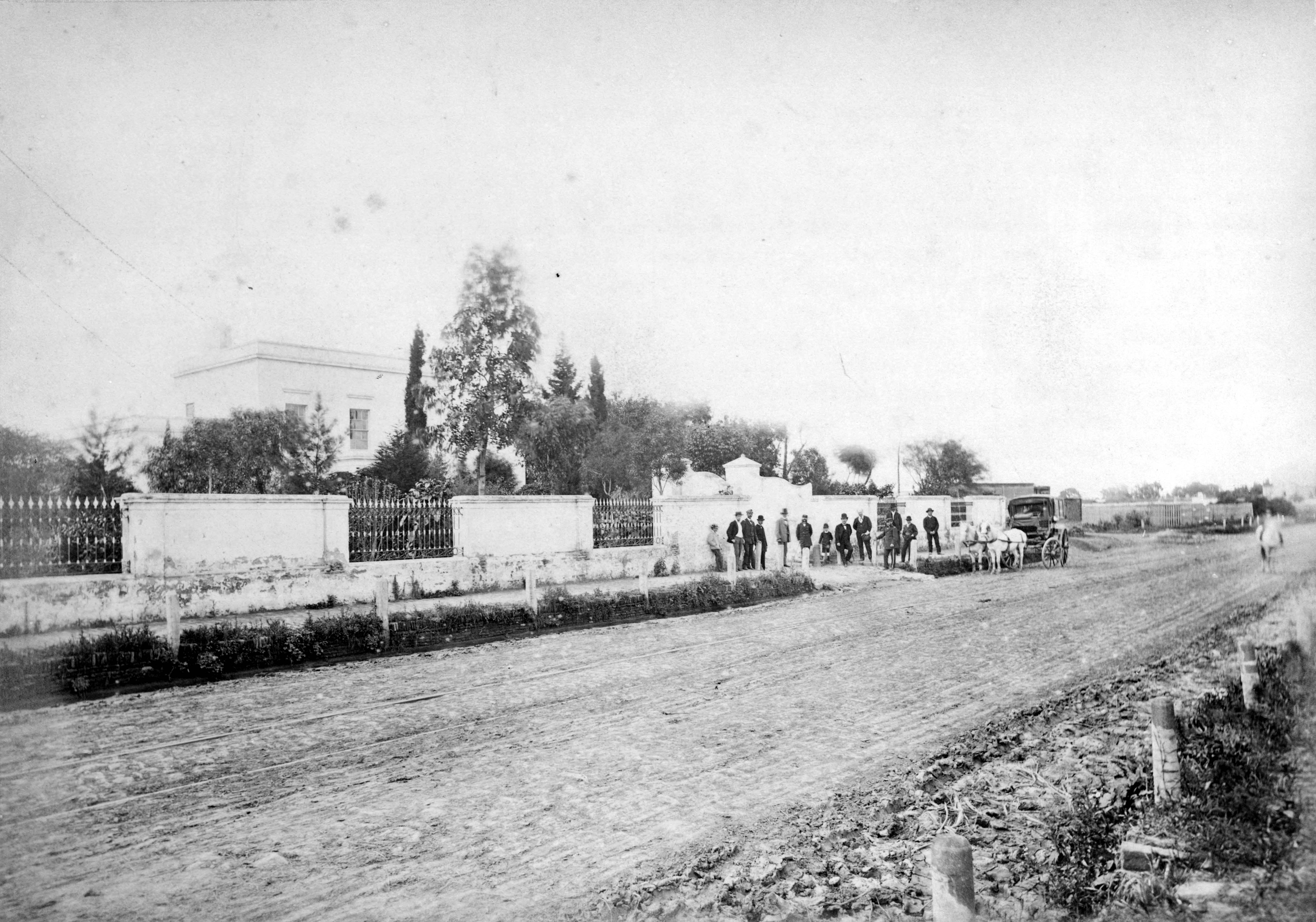 View of the Martín García Avenue of Buenos Aires at the end of XIX Century, where the Admiral William Brown's house can be viewed. The house would be later demolished.